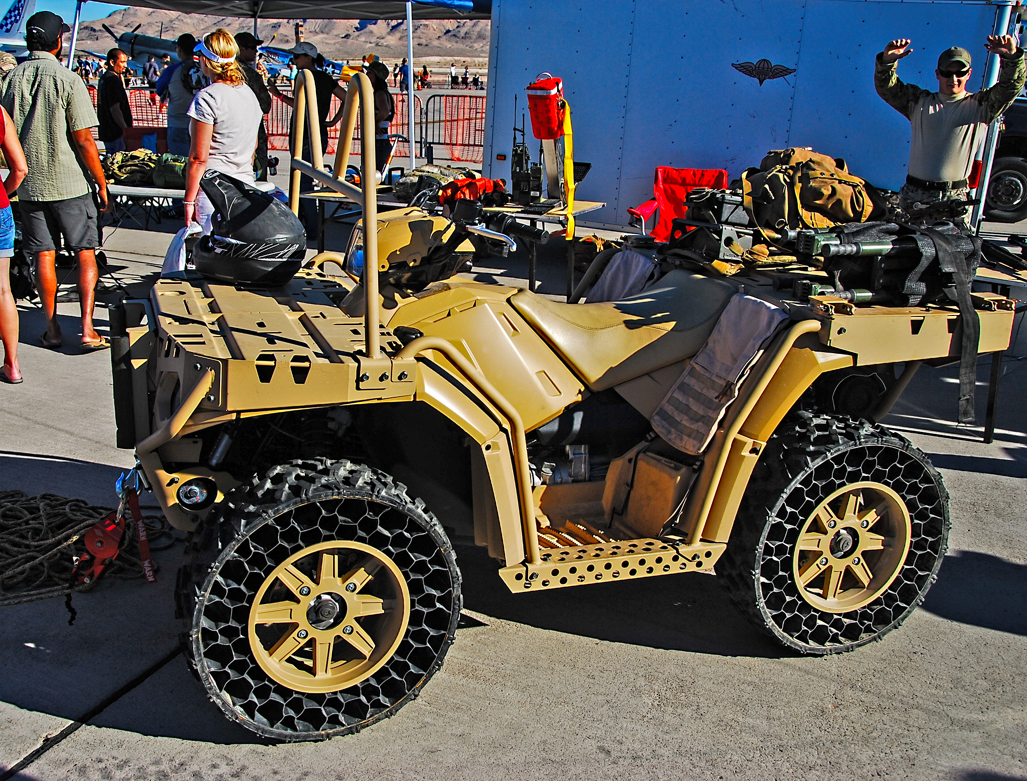 Las Vegas - Nellis AFB (LSV / KLSV) Aviation Nation 2014 Air Show USA - Nevada, November 8, 2014 Photo: TDelCoro